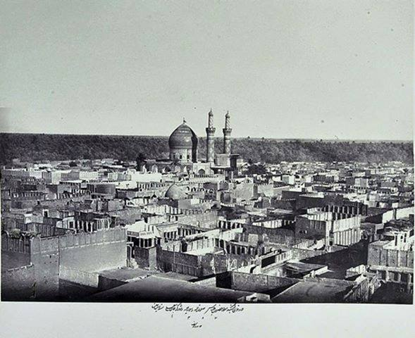 Karbala City 1890 - 1899